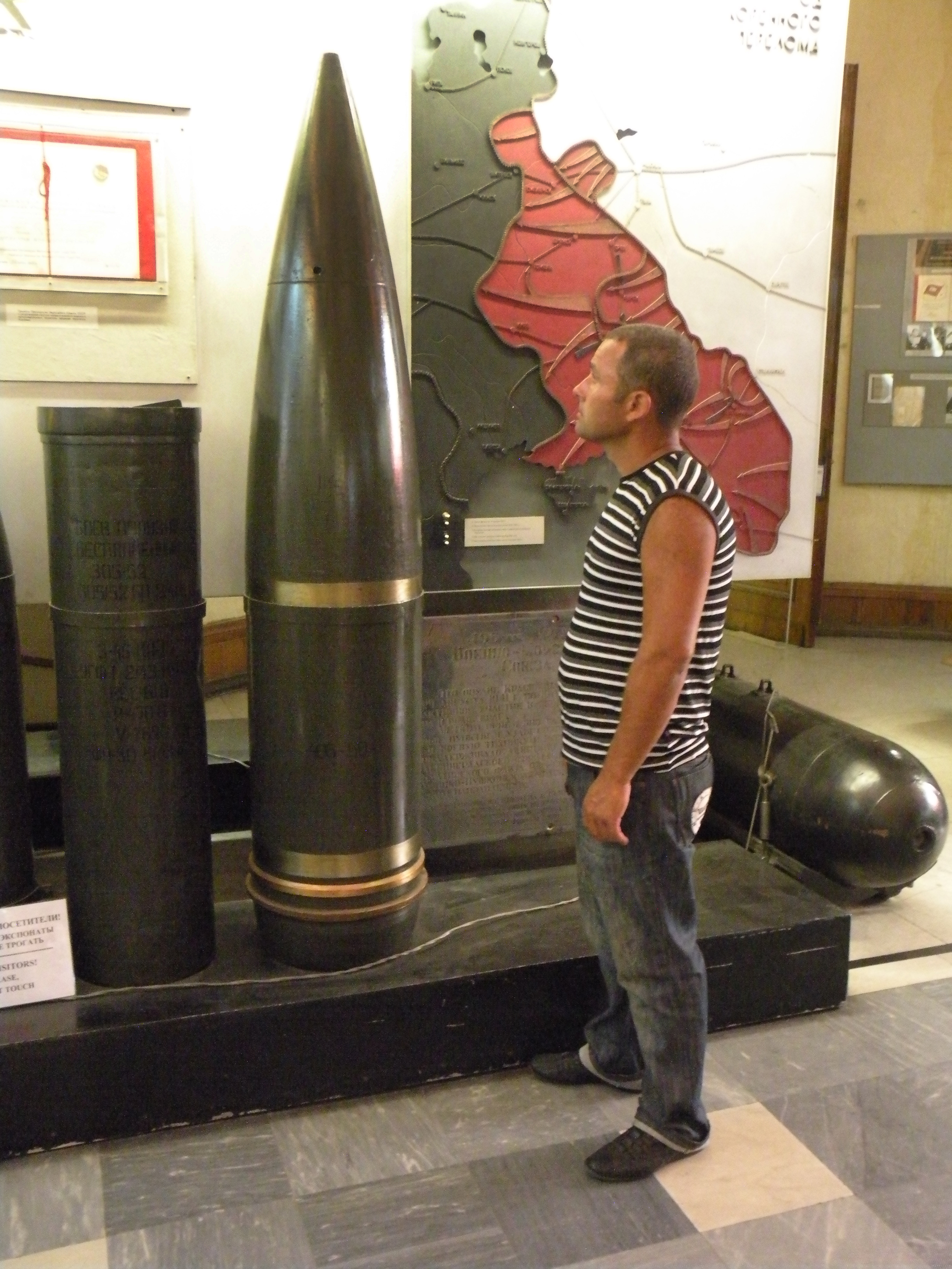 Shell for 406 mm/50 (16") B-37 Pattern 1937 naval gun, at Central Naval Museum, St. Petersburg, Russia.